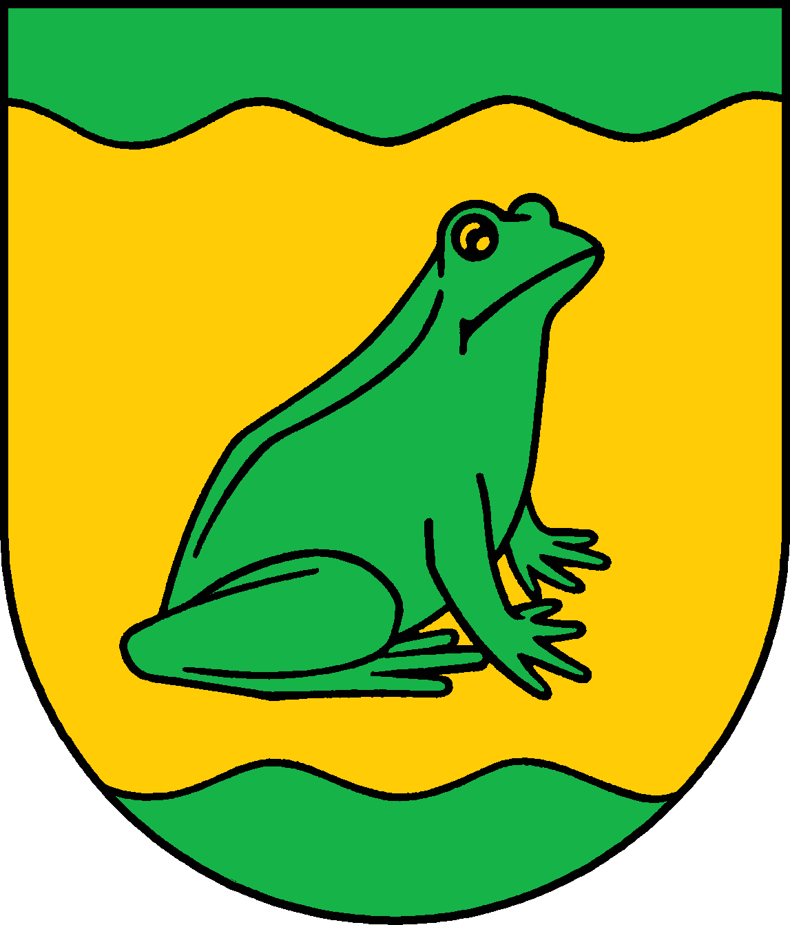 Coat of arms of the municipality Poggensee in Schleswig-Holstein, Germany.